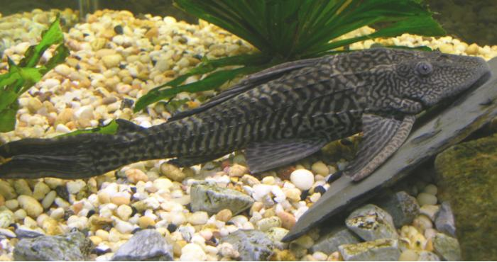 Pterygoplichthys pardalis